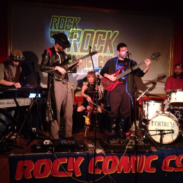 Chronicles of Sound at Rock Comic Con 6 (Pioneers Bar, New York).